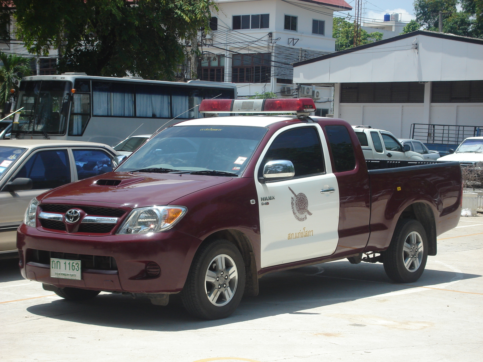 Toyota Hilux as Thai police car - Phitsanulok, Thailand